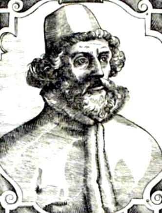 Theodore Gaza, a Greek humanist and Greek scholar from Thessaloniki.